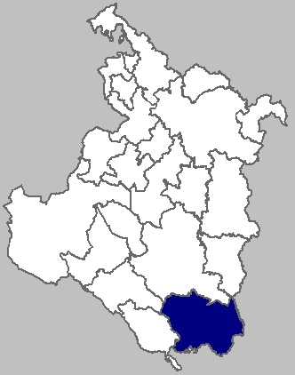 Self-made map of Rakovica, Karlovac County municipality within Karlovac County.